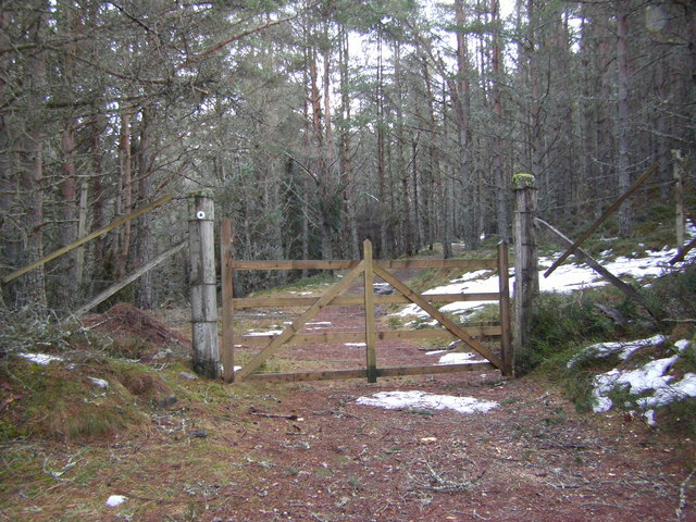 Gate in the forest